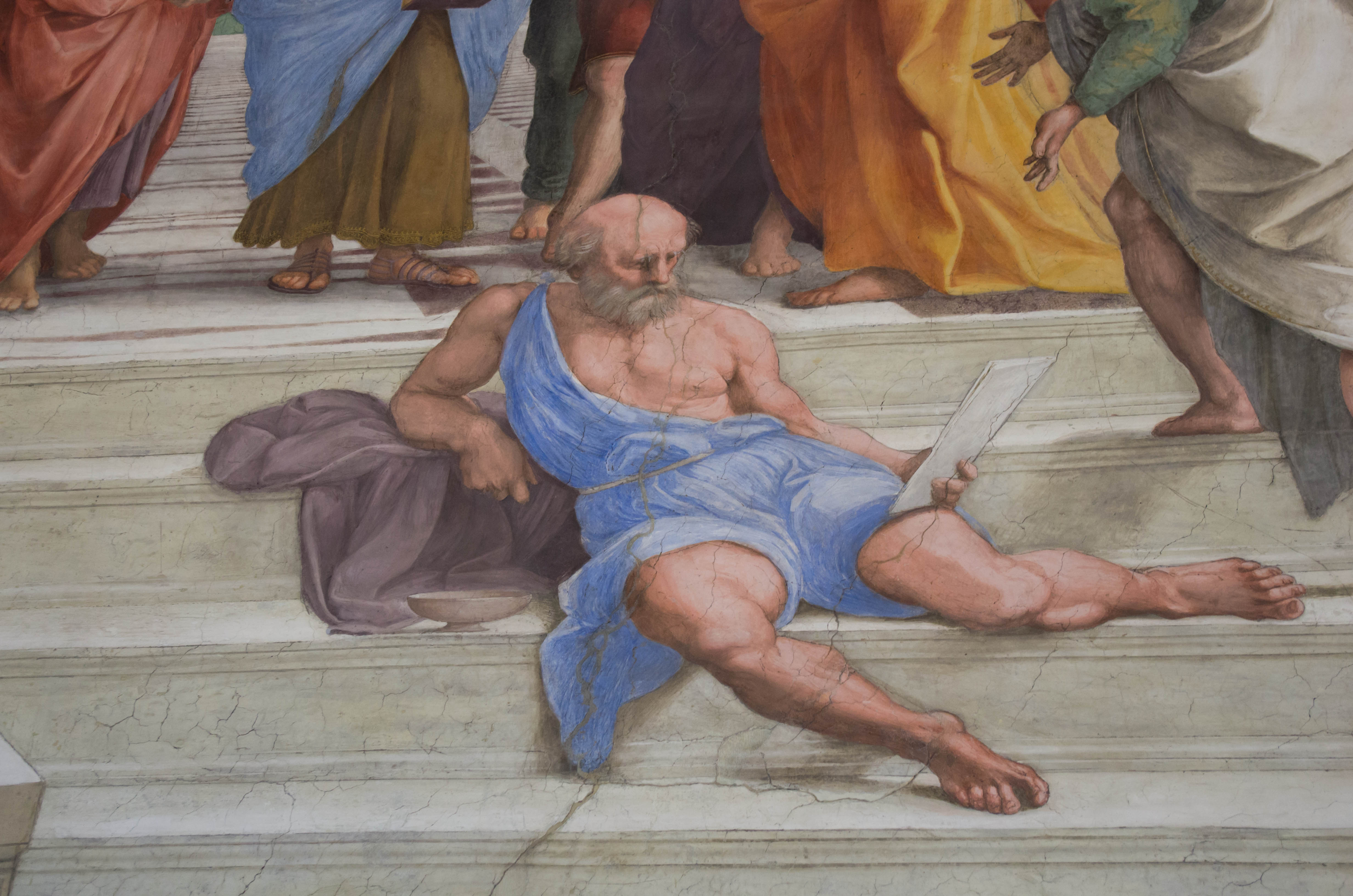 The School of Athens